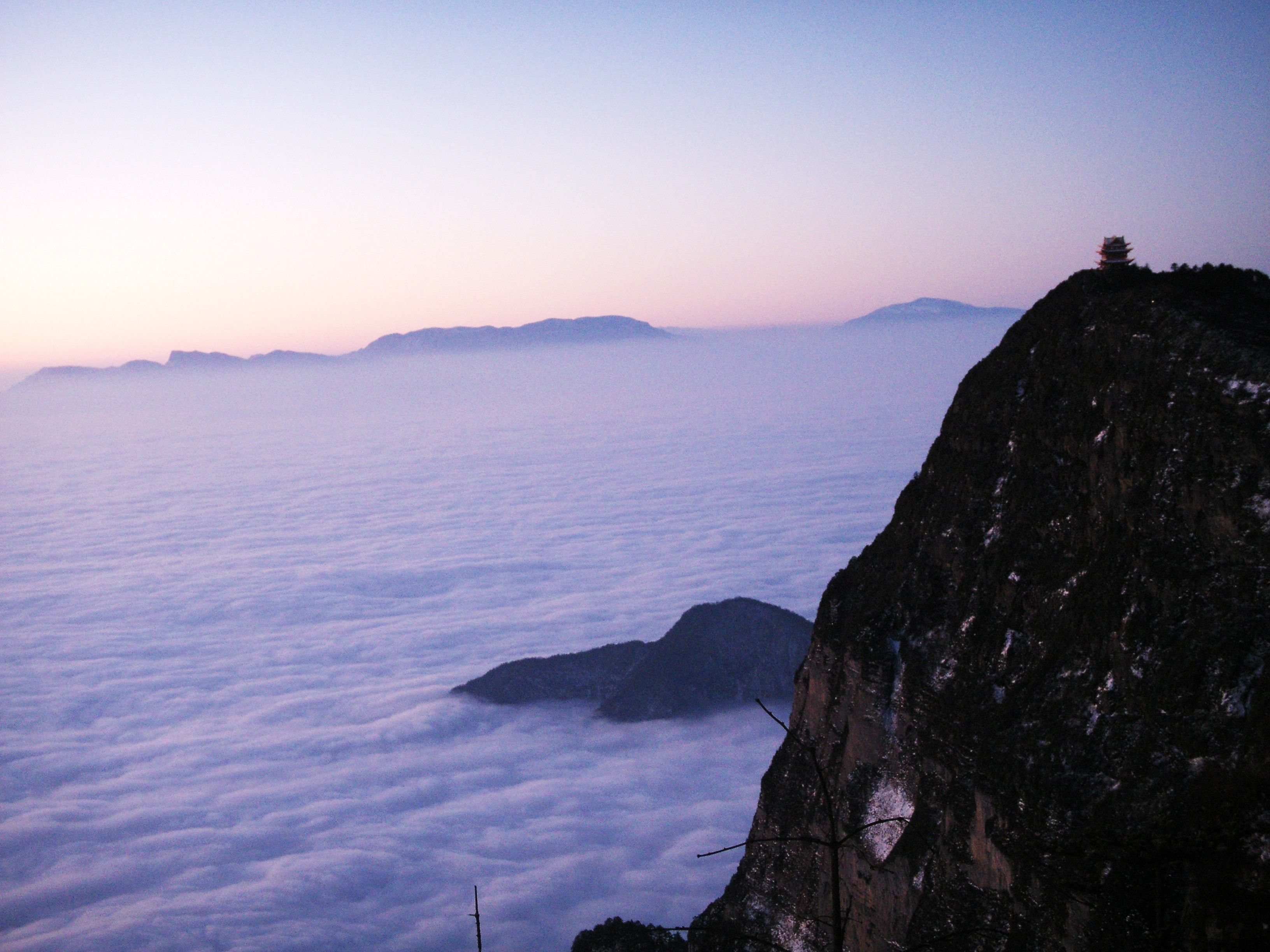 Mount Emei in Sichuan Western China